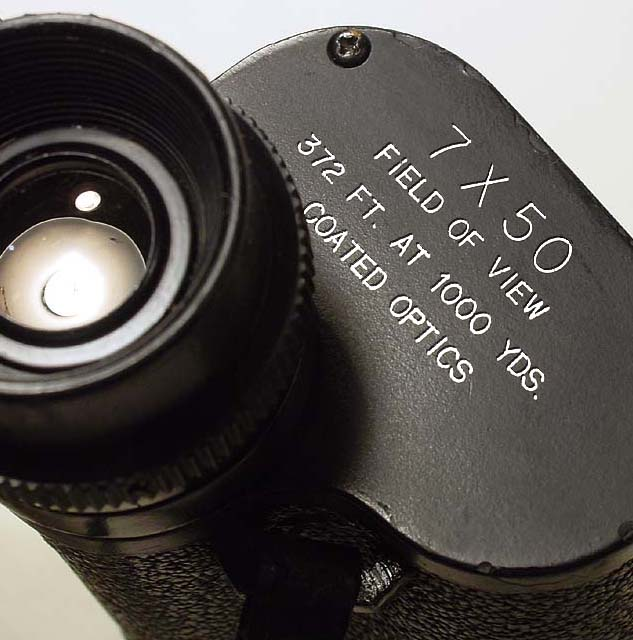 Optical parameters listed on the prism cover plate of a binocular describing a 7 power magnification, a 50mm Objective Diameter and a 372 foot Field of view at 1,000 yards.